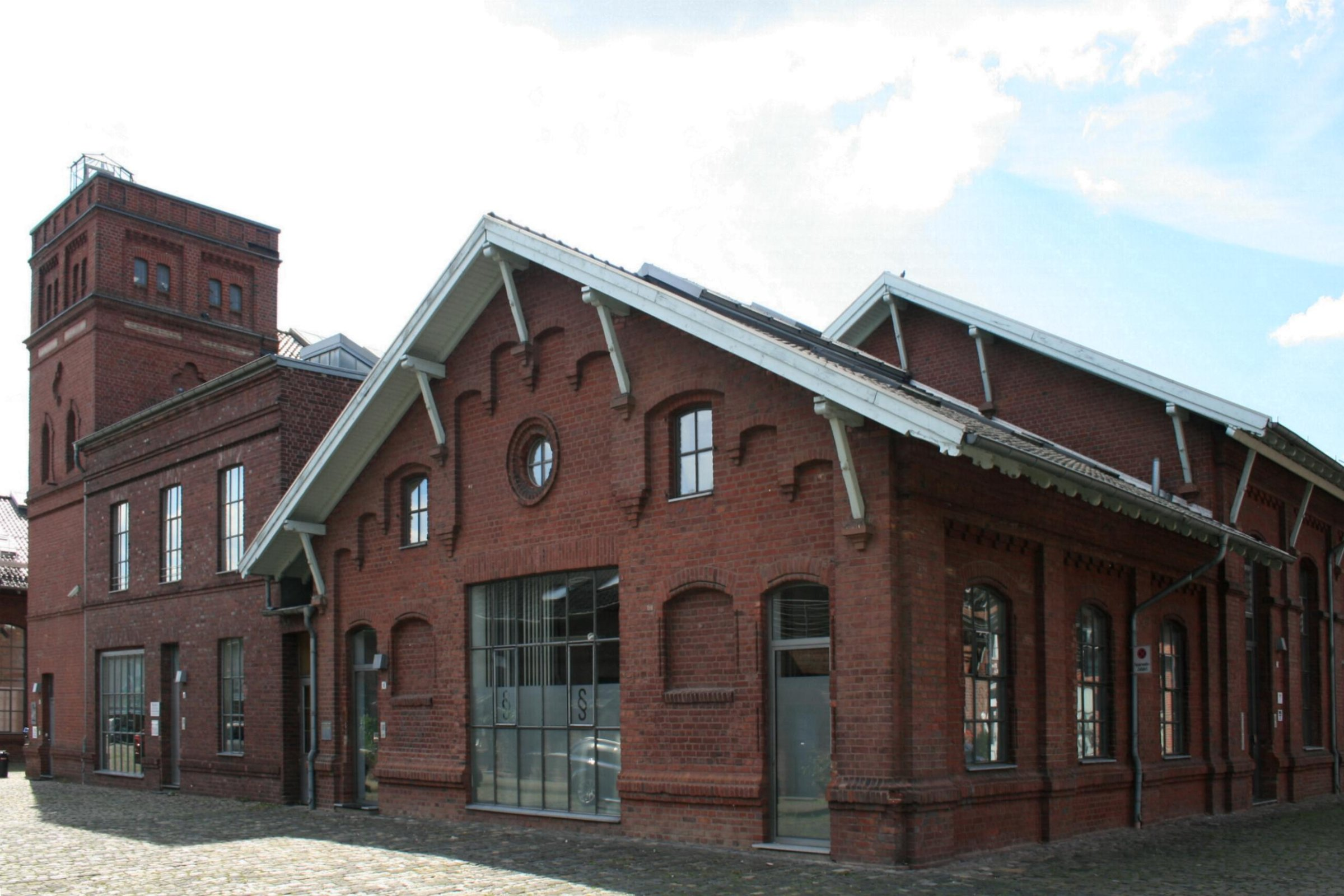 Cultural heritage monument No. A 044 in Mönchengladbach